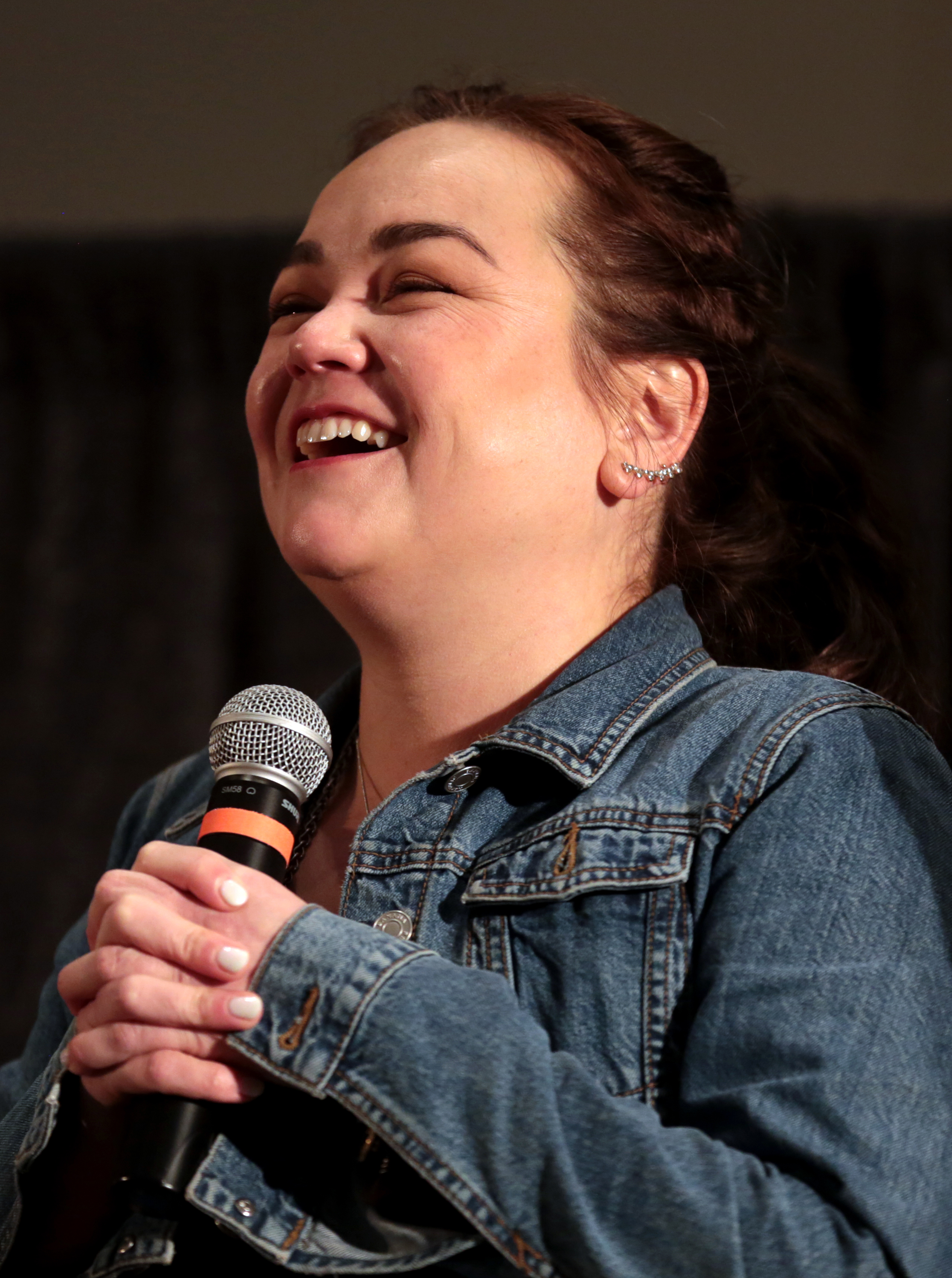 Trina Nishimura speaking at the 2018 Phoenix Comic Fest in Phoenix, Arizona.